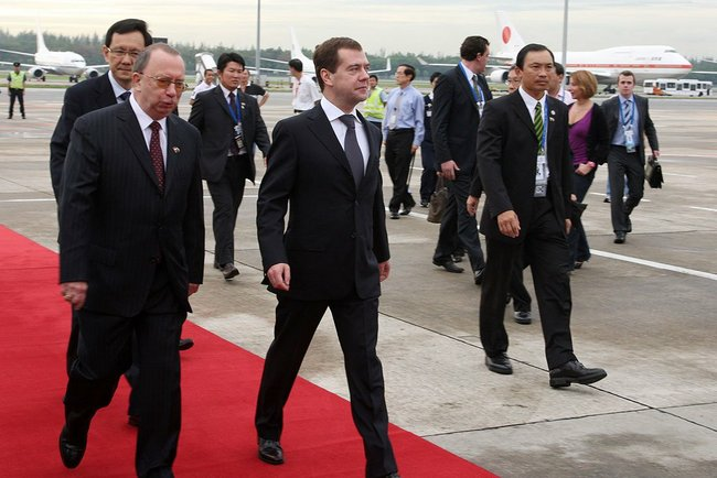 Arrival in Singapore.